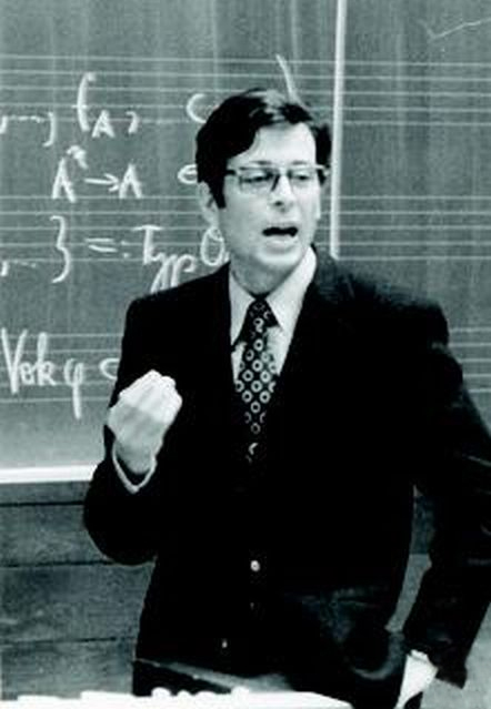 Heinz-Dieter Ebbinghaus, Hannover 1974